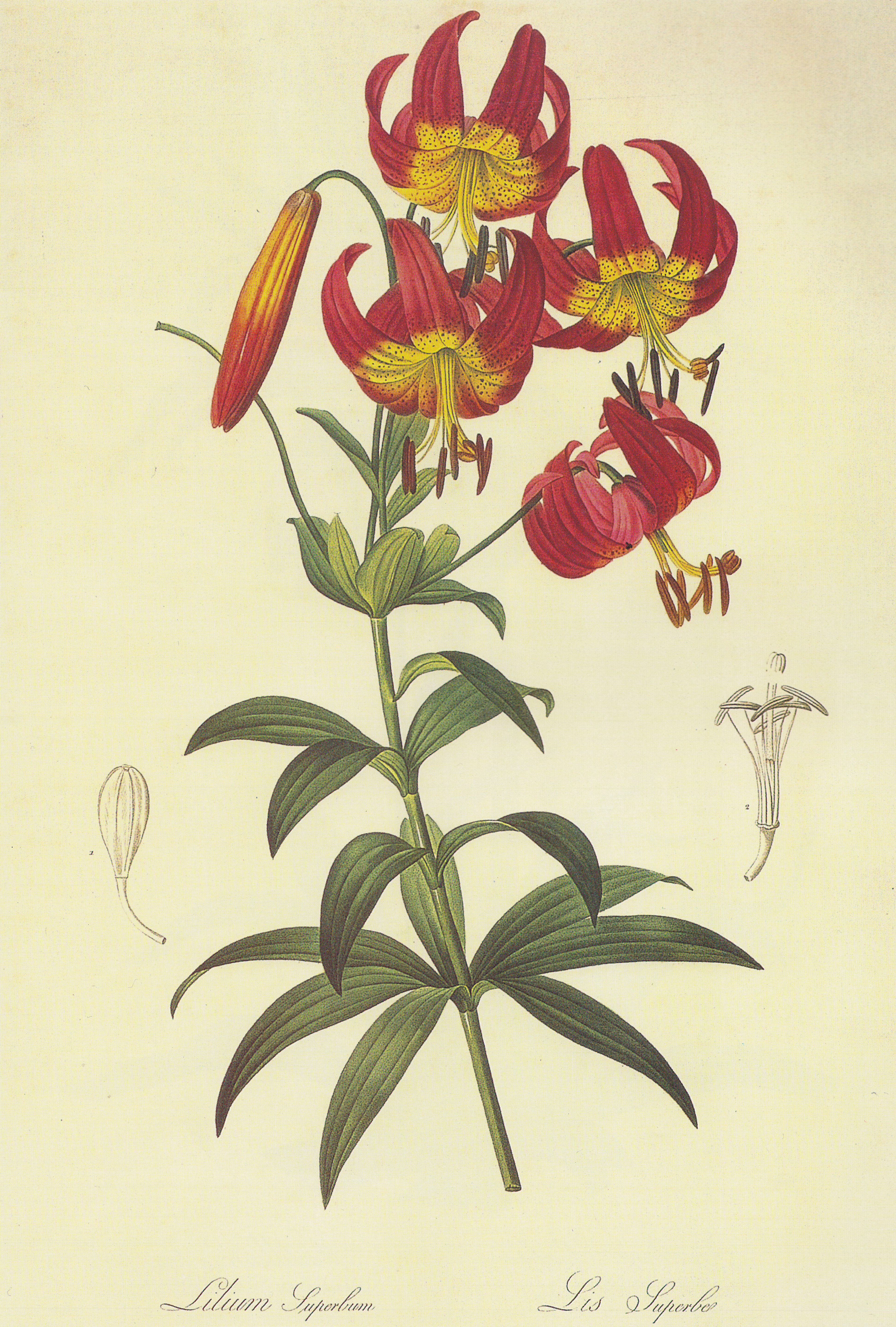 Lilium superbum Lithographie